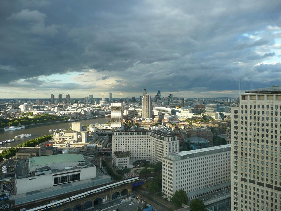 View of London